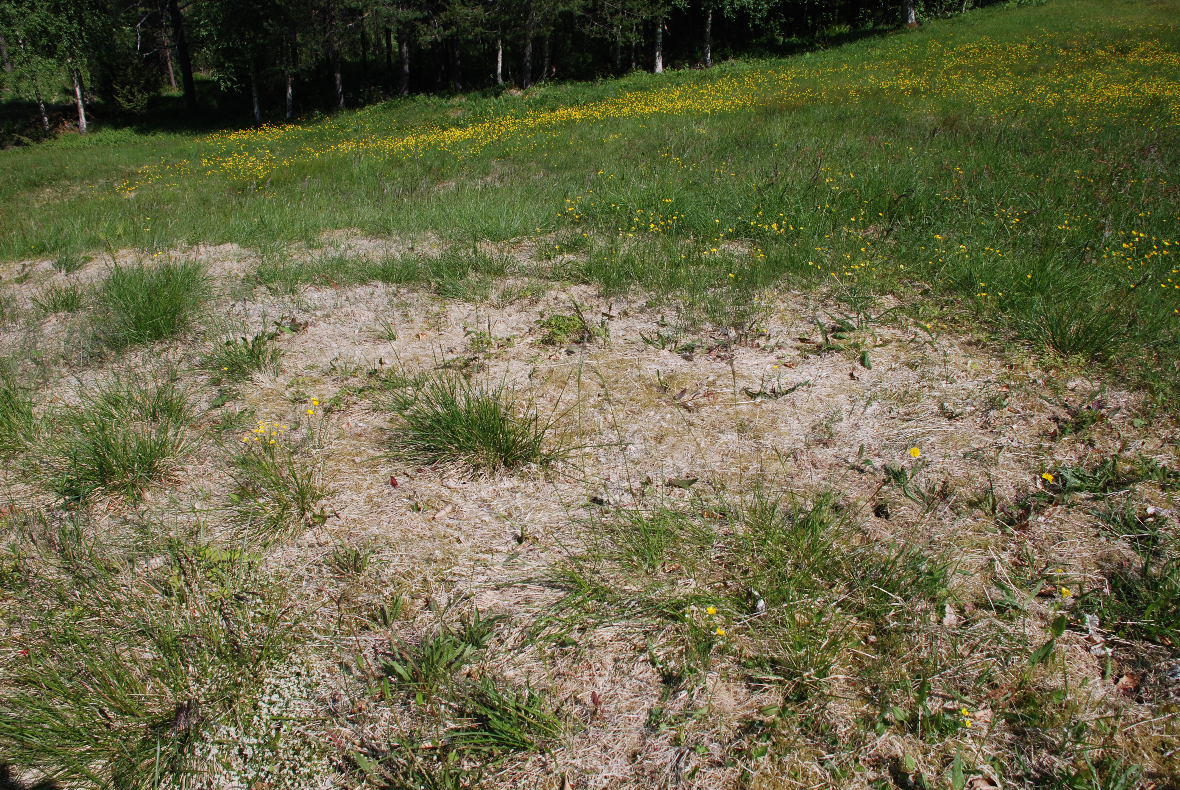 Grass attacked by a fungi, probably Monographella nivalis